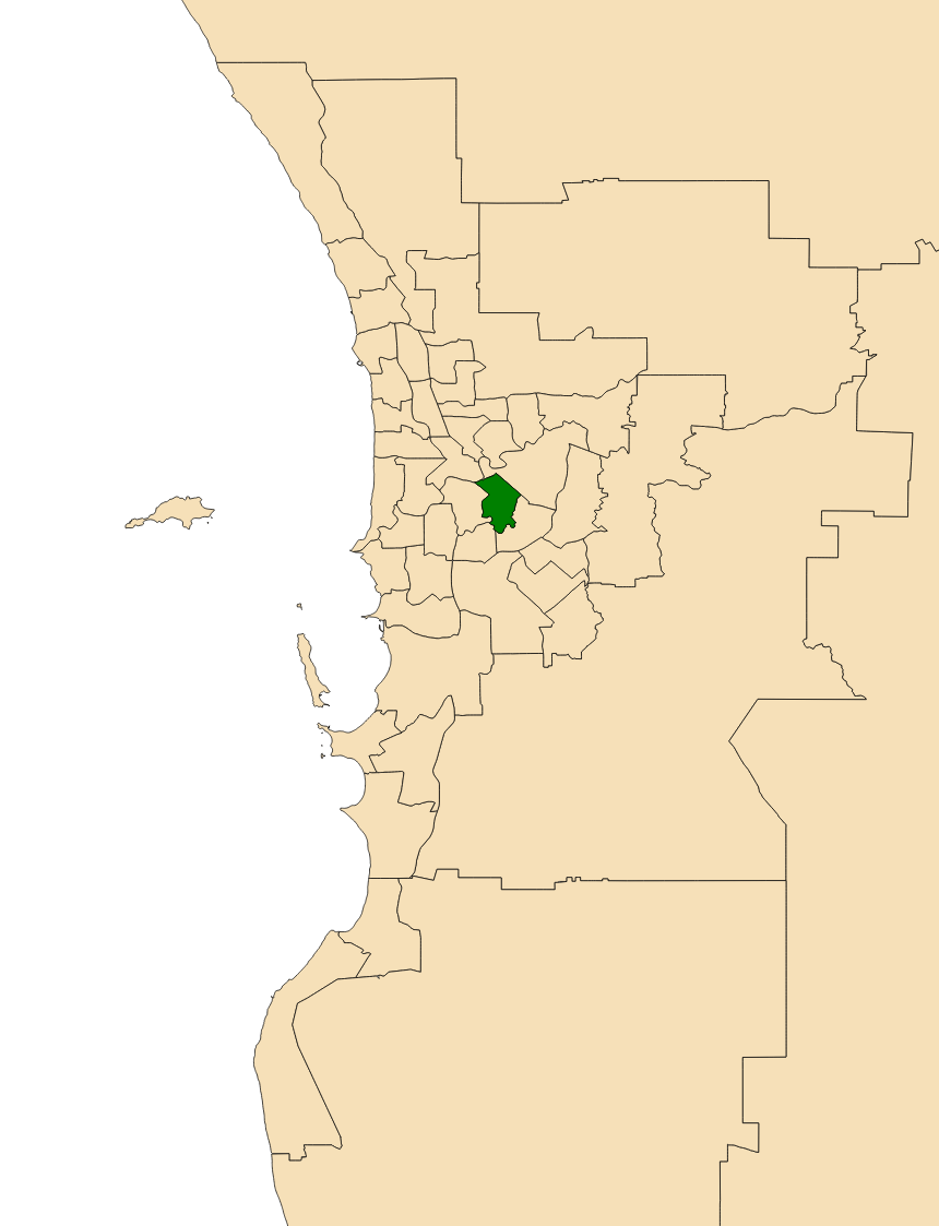 Location of the electoral district of Victoria Park in the Perth metropolitan area, Western Australia as of the 2017 WA state election.